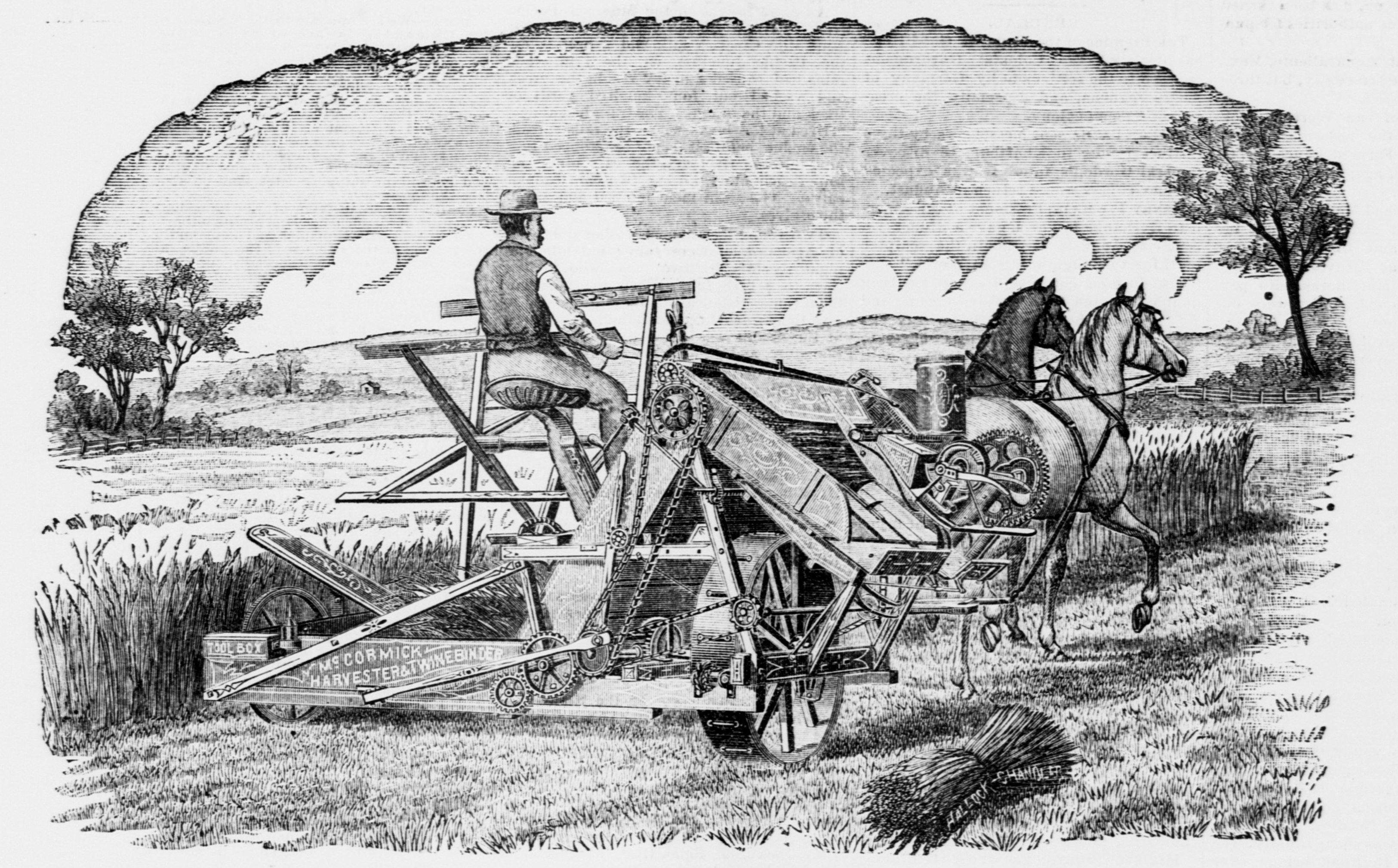 Advertisement for the twine binder version of the McCormick reaper. Caption reads: "The People's Favorite! The World-Renowned McCormick Twine Binder! Victorious in over 100 Field Trials! New and Valuable Improvements for 1884!"